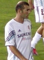 Zinedine Zidane, Balon d'Or winner 1998 (and a few other times).